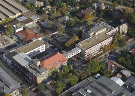 Csepel, Budapest, district XXI, Hungary, aerial photography, hospital